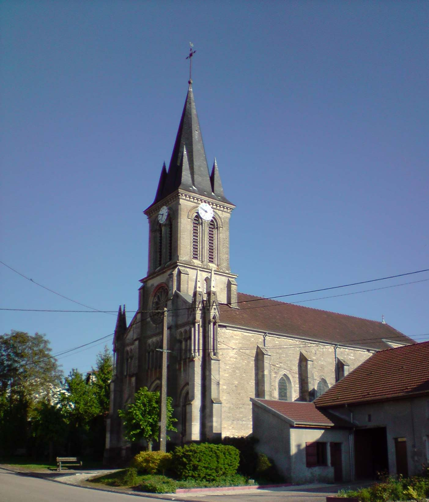 Church of the city of Vouthon-Haut, Meuse, France.